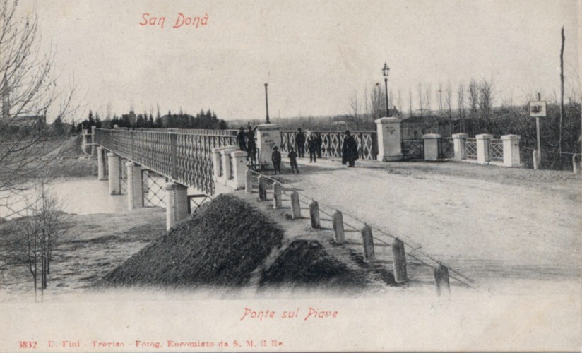 Bridge in San Donà di Piave (Venice)